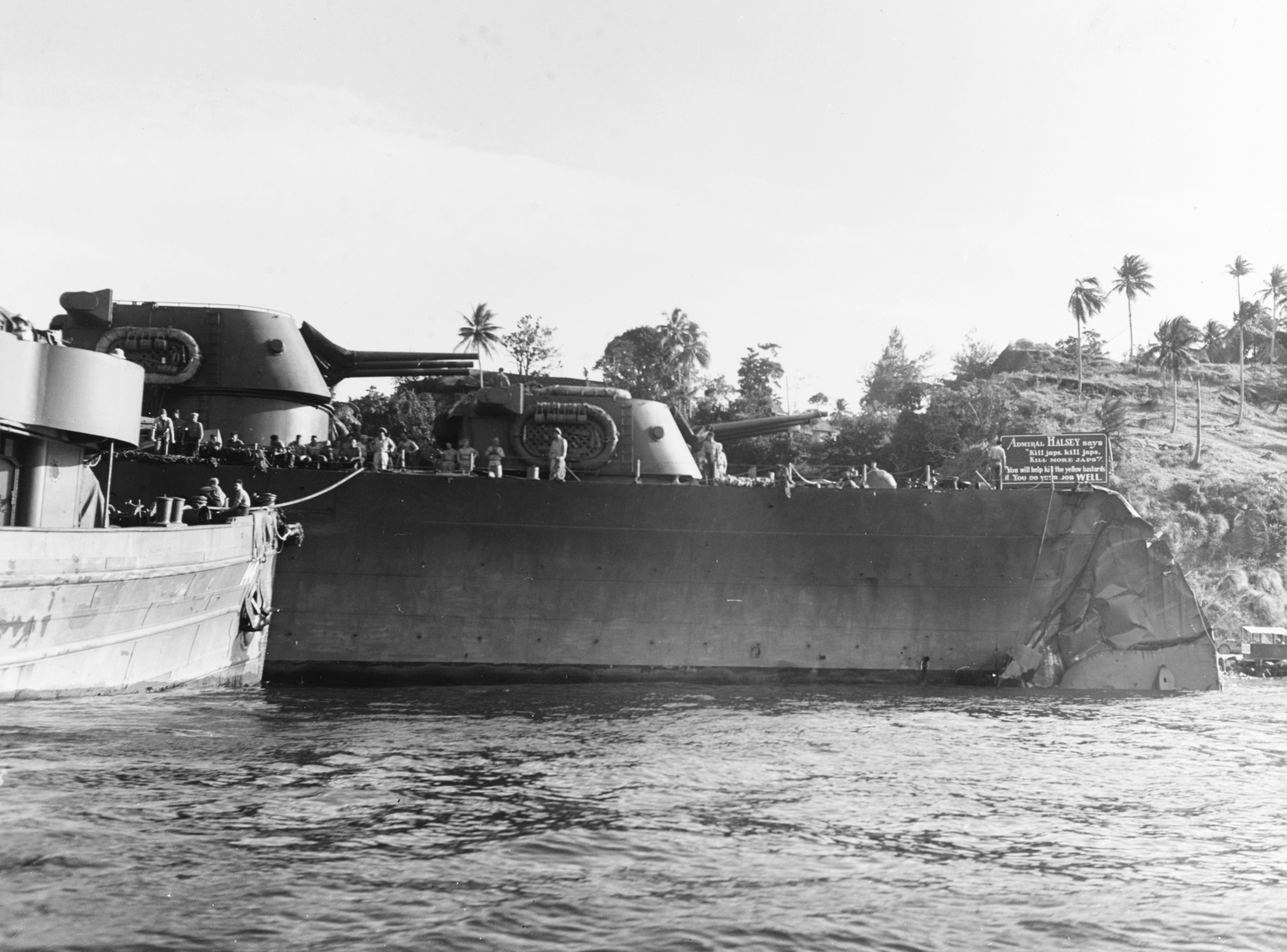 The U.S. Navy light cruiser USS Honolulu (CL-48) in Tulagi Harbor, Solomon Islands, for temporary repair of damage received when she was torpedoed in the bow during the Battle of Kolombangara. USS Vireo (AT-144) is assisting the damaged cruiser. Original caption: (Note the) motivational sign at the Tulagi fleet landing, July 1943. Reportedly erected by Captain Oliver O. (Scrappy) Kessing, USN, commander of the Tulagi Naval base. This sign is best explained in the words of the historian (and participant in contemporary actions in the Solomons) Samuel Eliot Morison, writing in the later 1940s about war zone attitudes at the height of the Guadalcanal campaign: ... thank God for Halsey, exuding strength and confidence; for his slogan, which 'Scrappy' Kessing painted up over the fleet landing at Tulagi in letters two feet tall: KILL JAPS, KILL JAPS, KILL MORE JAPS! This may shock you, reader; but it is exactly how we felt. We were fighting no civilized, knightly war. We cheered when the Japs were dying. We were back to primitive days of Indian fighting on the American frontier; no holds barred and no quarter. The Japs wanted it that way, thought they could thus terrify an 'effete democracy'; and that is what they got, with all the additional horrors of war that modern science can produce. Quoted from History of United States Naval Operations in World War II, Volume V: The Struggle for Guadalcanal, page 187.""